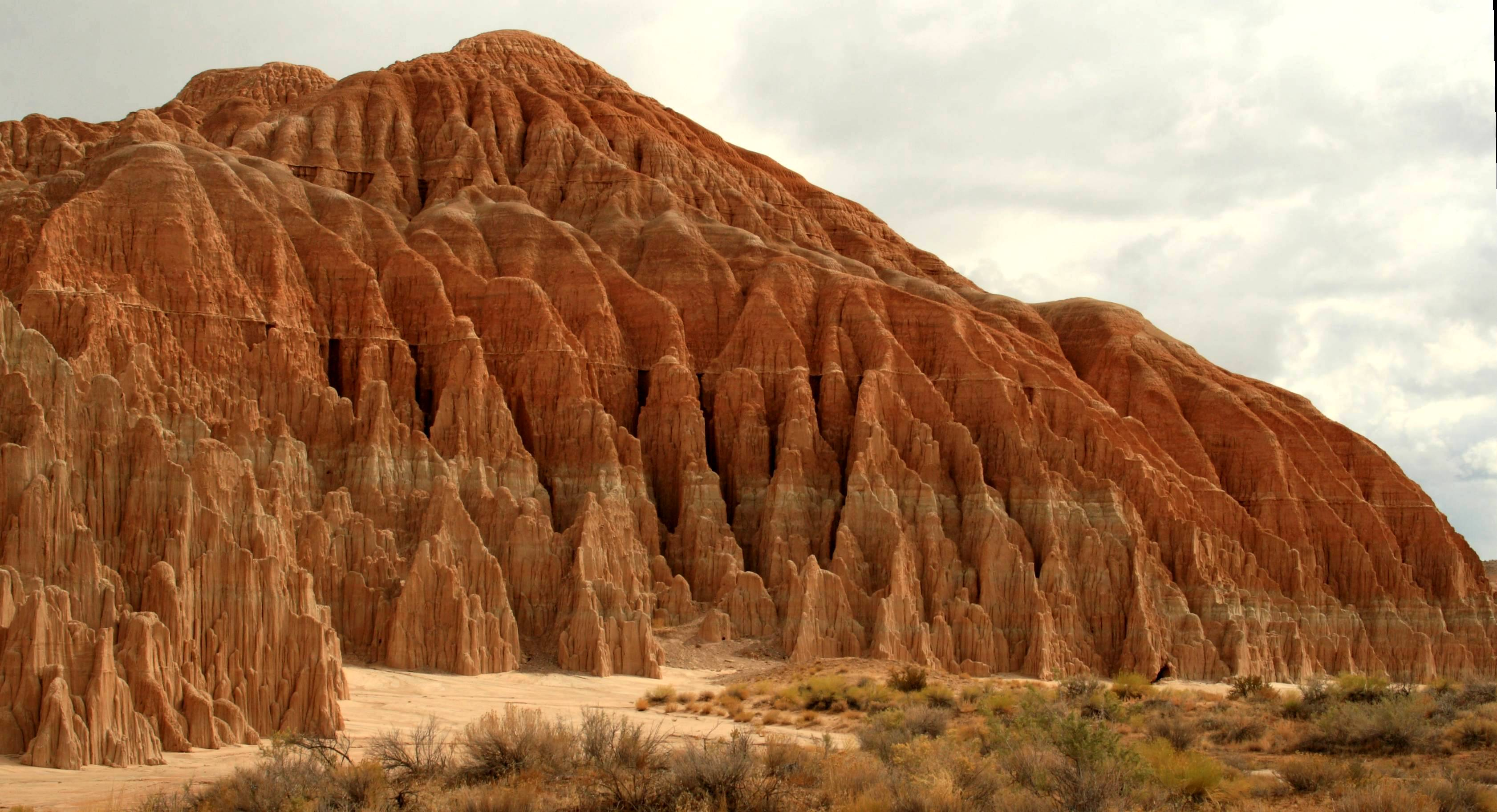 Cathedral Gorge State Park — about 80 miles south of Great Basin National Park in eastern Nevada and 80 miles west of Cedar City, Utah. Cathedral Gorge was formed by lake that dried up many years ago and wind and rain carved out the canyon. It is a little out of the way but well worth a detour. I took this photo on a snowy, cold day in October 2008.